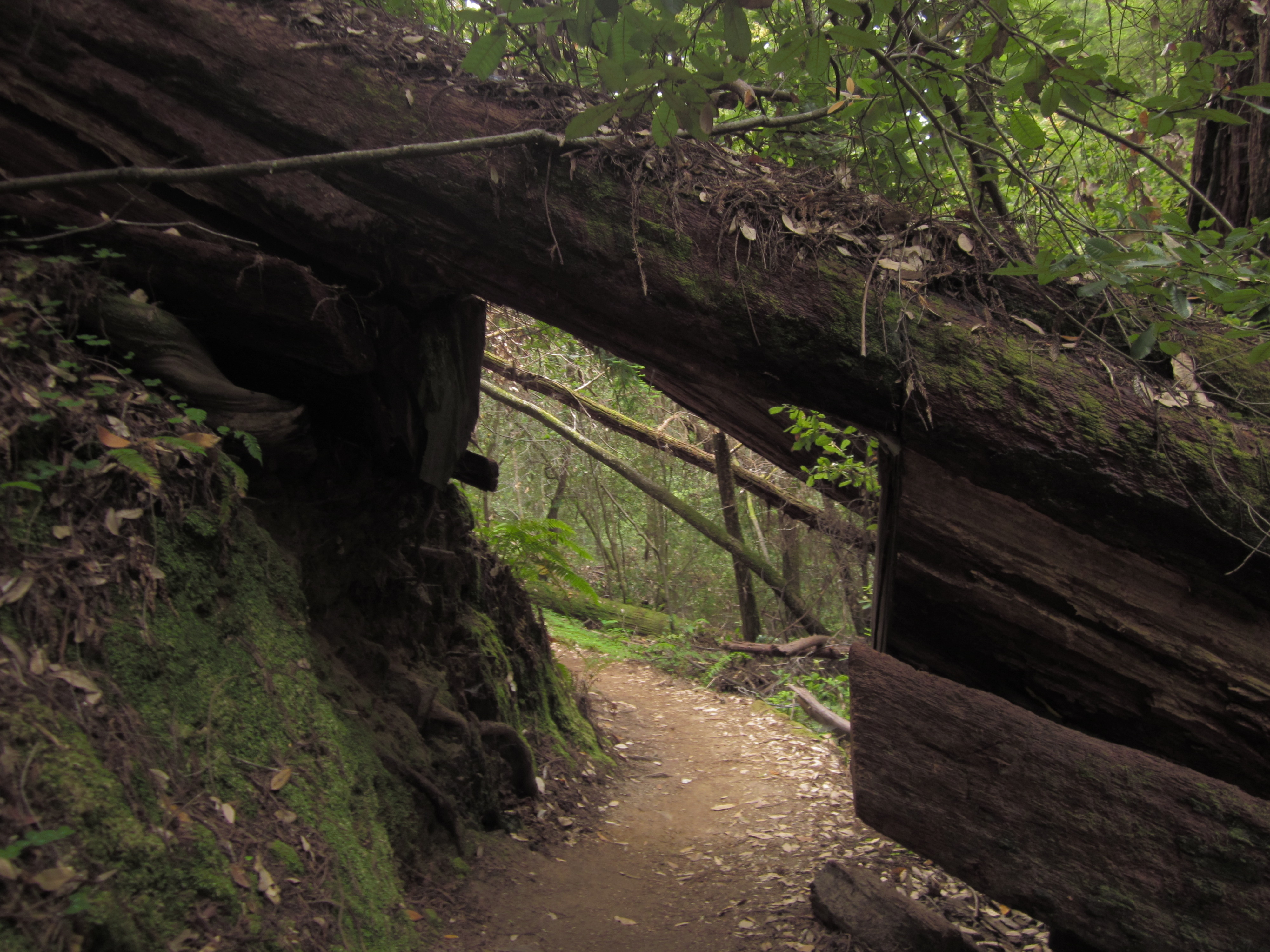 The Skyline-to-the-Sea Trail — in the Santa Cruz Mountains, Northern California. Passing through a fallen California Coast Redwood tree (Sequoia sempervirens).